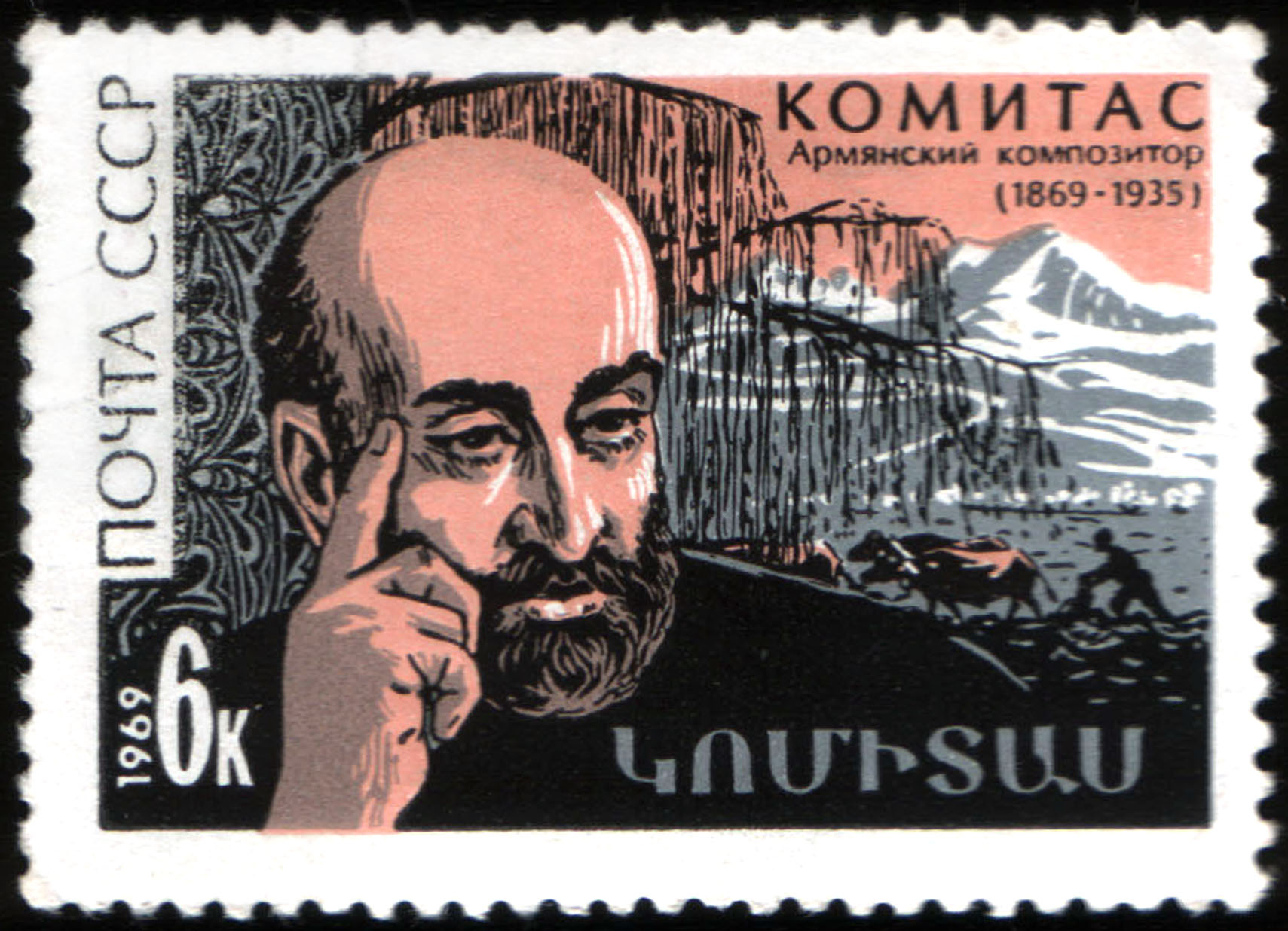 USSR stampː Komitas and Rural Scene. Seriesː Birth Centenary of Komitas, Armenian Composer (Soghomon Soghomonian, 1869-1935)